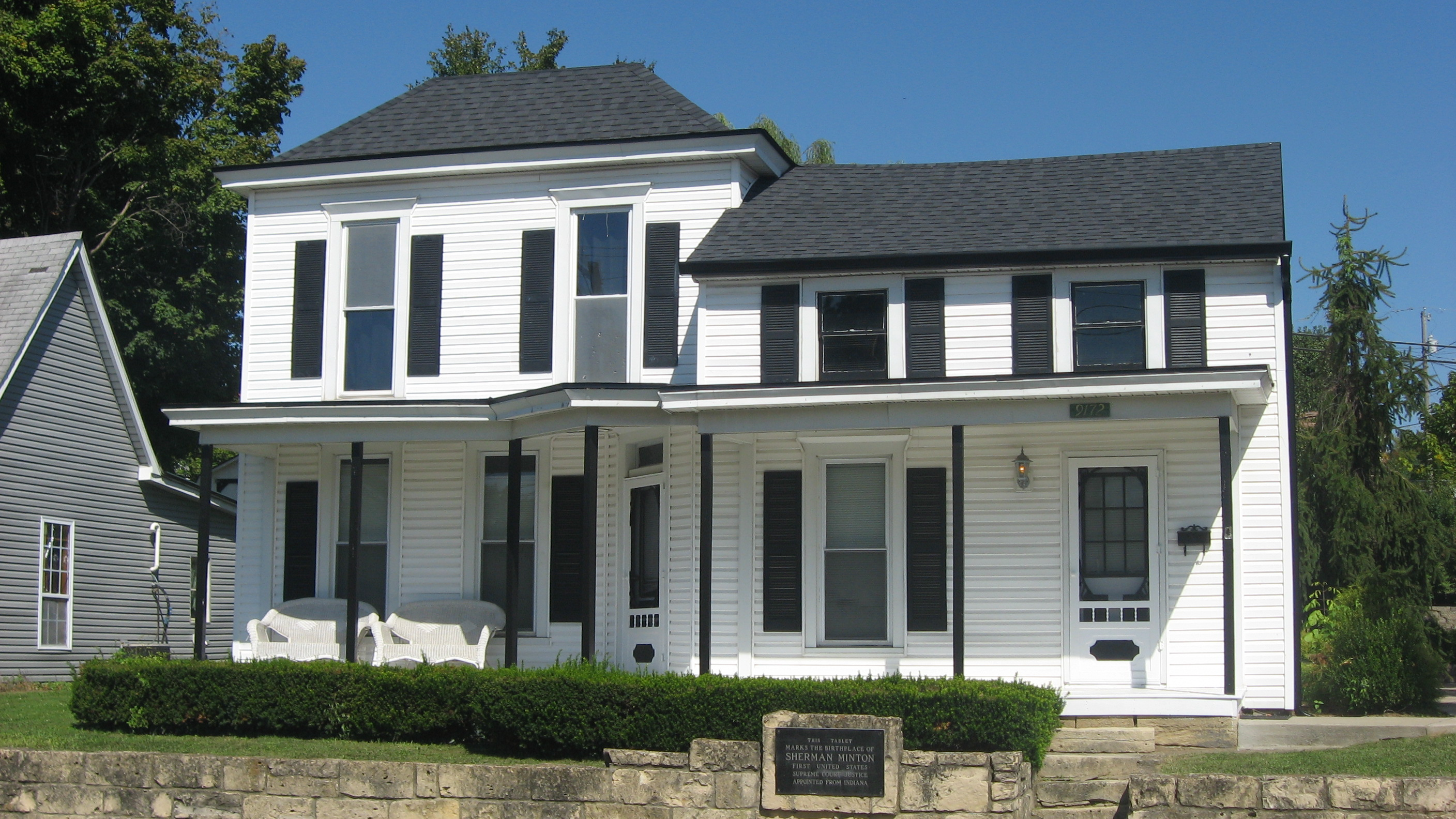 Front of the Sherman Minton Birthplace, located at 9172 Main Street (State Road 64) in Georgetown, Indiana, United States. Built in 1855, it is part of the Georgetown Historic District, a historic district that is listed on the National Register of Historic Places.